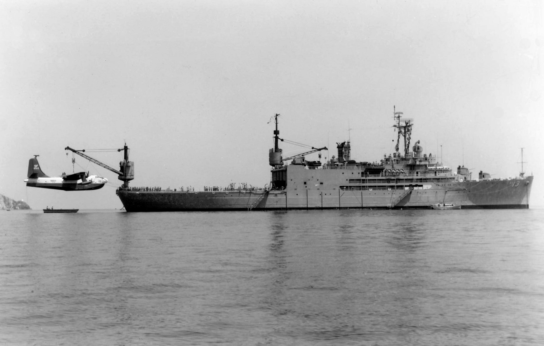 The U.S. Navy seaplane tender USS Salisbury Sound (AV-13) with a Martin P5M-1 Marlin of Patrol Squadron VP-48 on a crane in San Diego Bay, circa 1957.